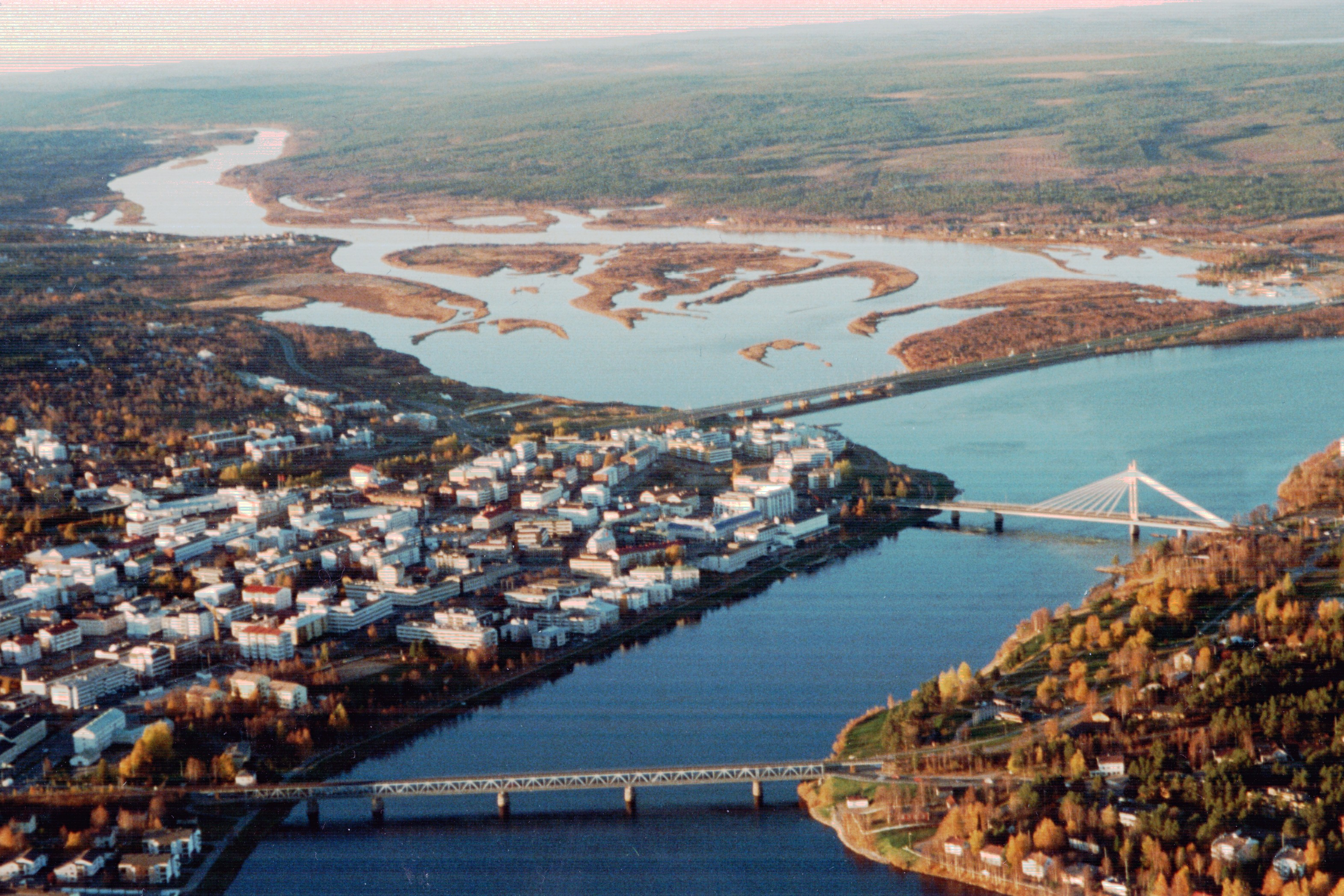 Aerial view of Rovaniemi, Finland